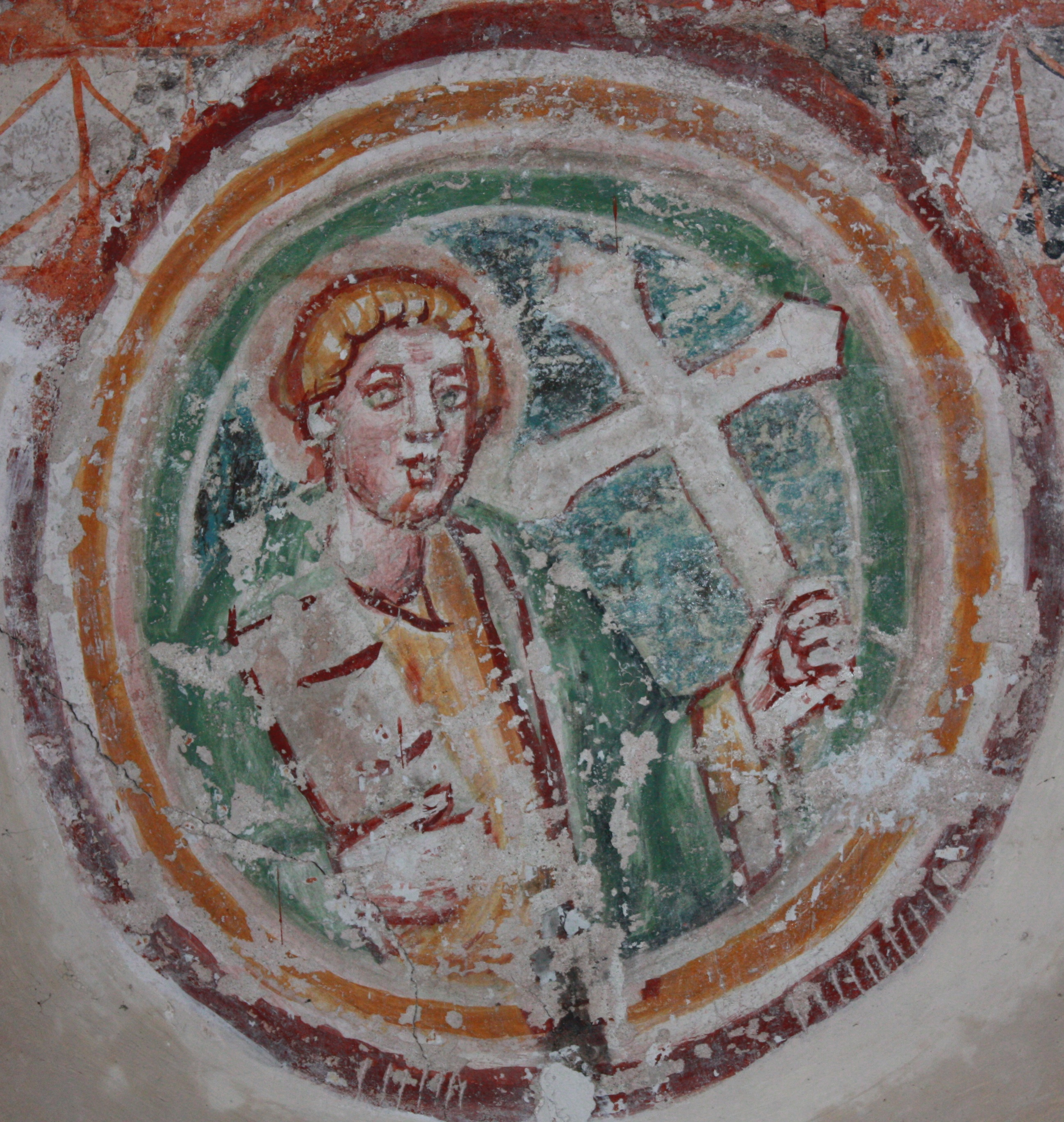 Subsidiary church Saint Oswald - Apostle Locality: Rinkolach/Rinkole Community:Bleiburg